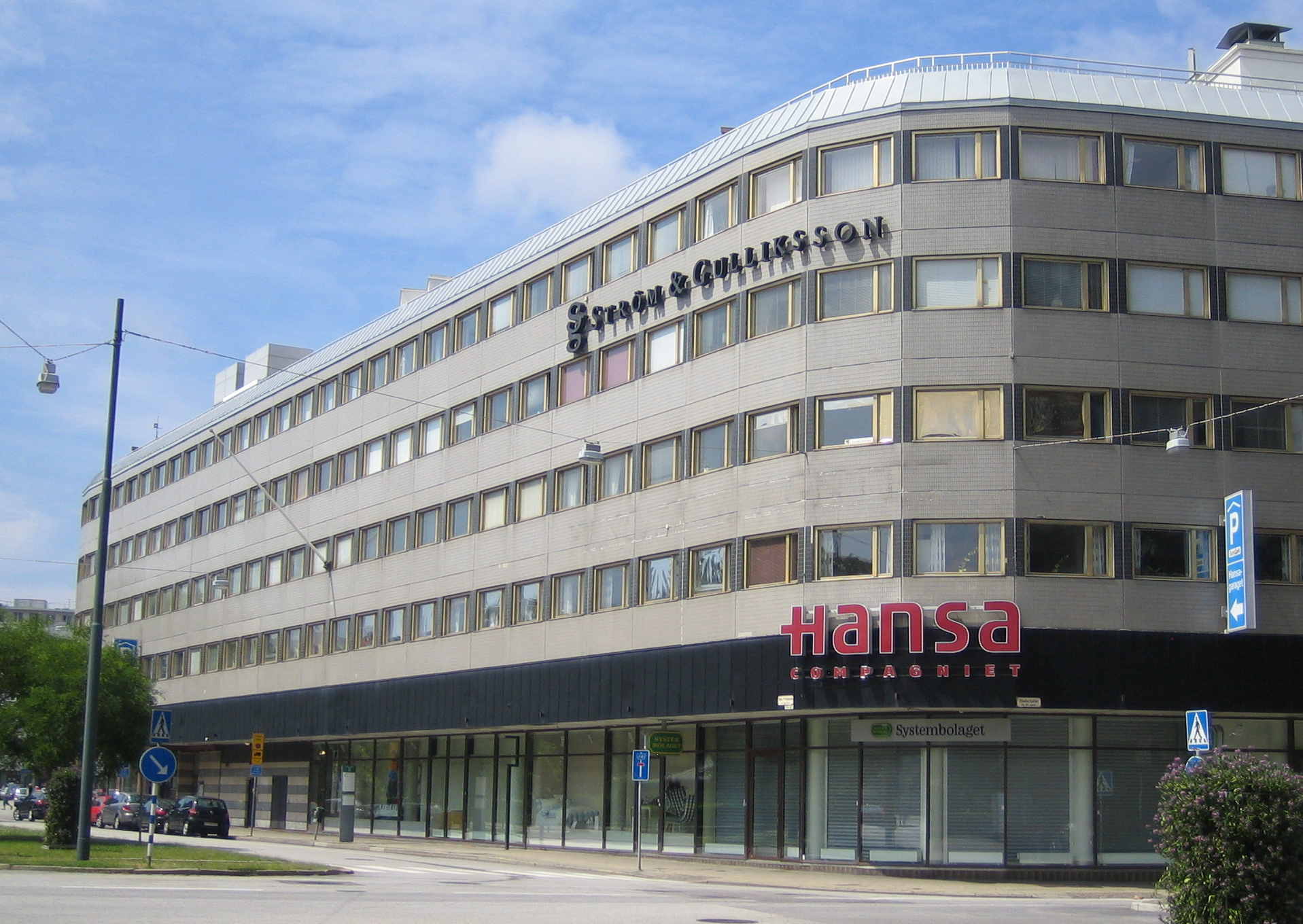 Hansacompagniet, former NK, a shopping mall in the city of Malmo.